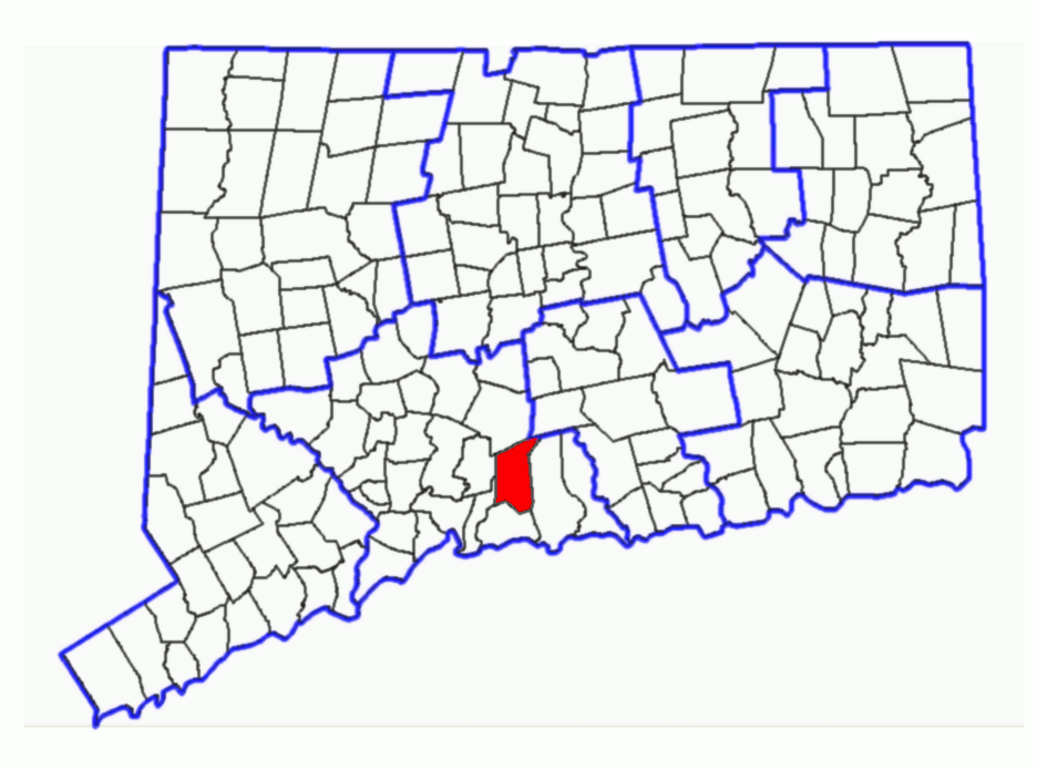 Subject: Map of Connecticut Townships with North Branford highlighted. Derived from sub-county SVG map of Connecticut at Libre Map Project using Adobe SVG viewer and Gimp 2.2.1.3